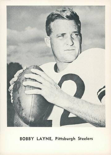 A promotional image of Pittsburgh Steelers player Bobby Layne.